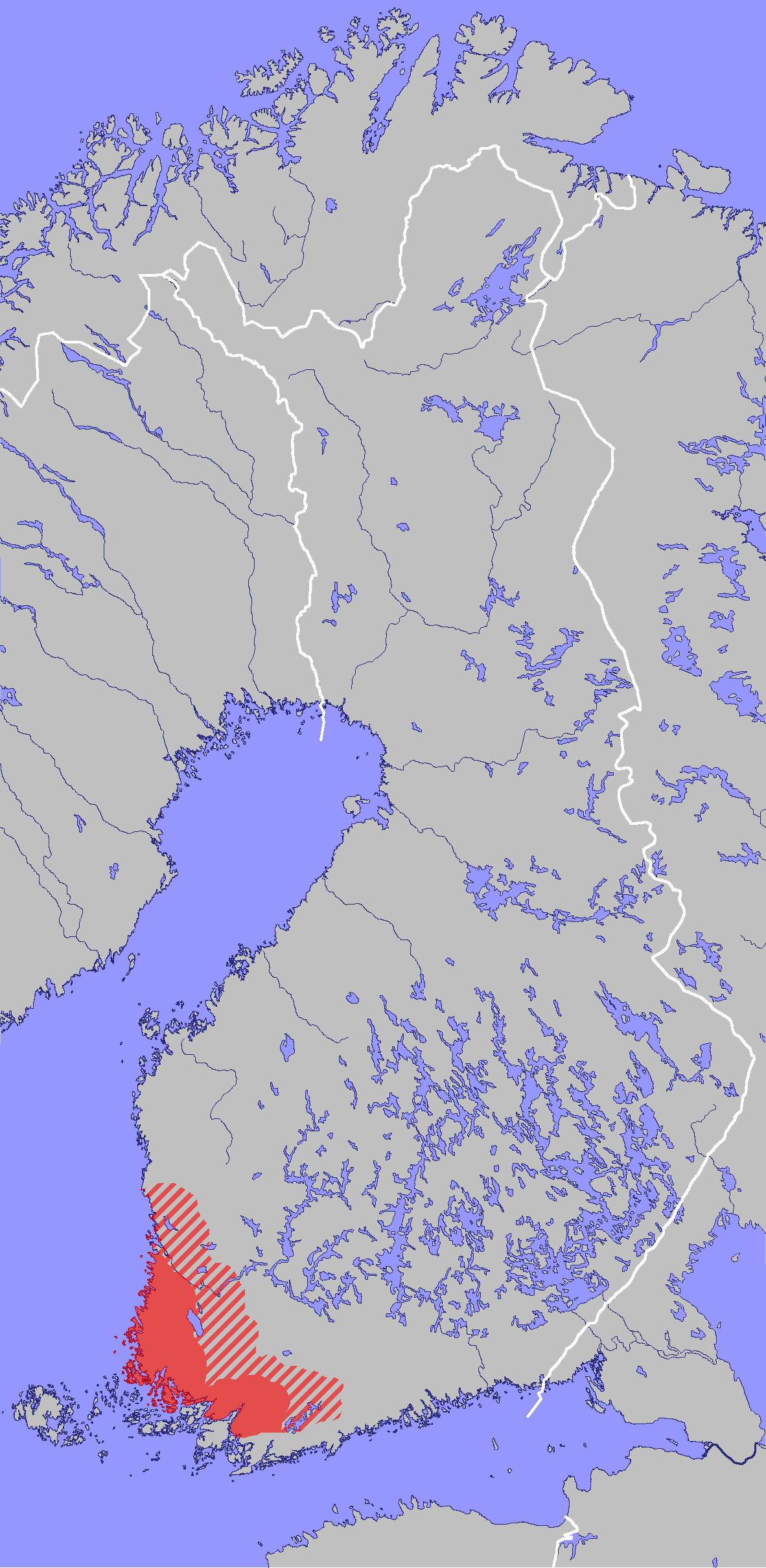 Area where south-western dialects of Finnish are spoken